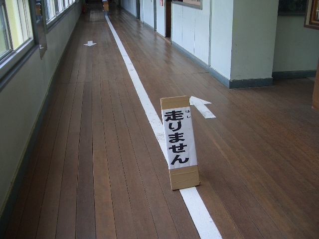 corridor in a Japanese elementary school. The sign says "You do not run."corridor